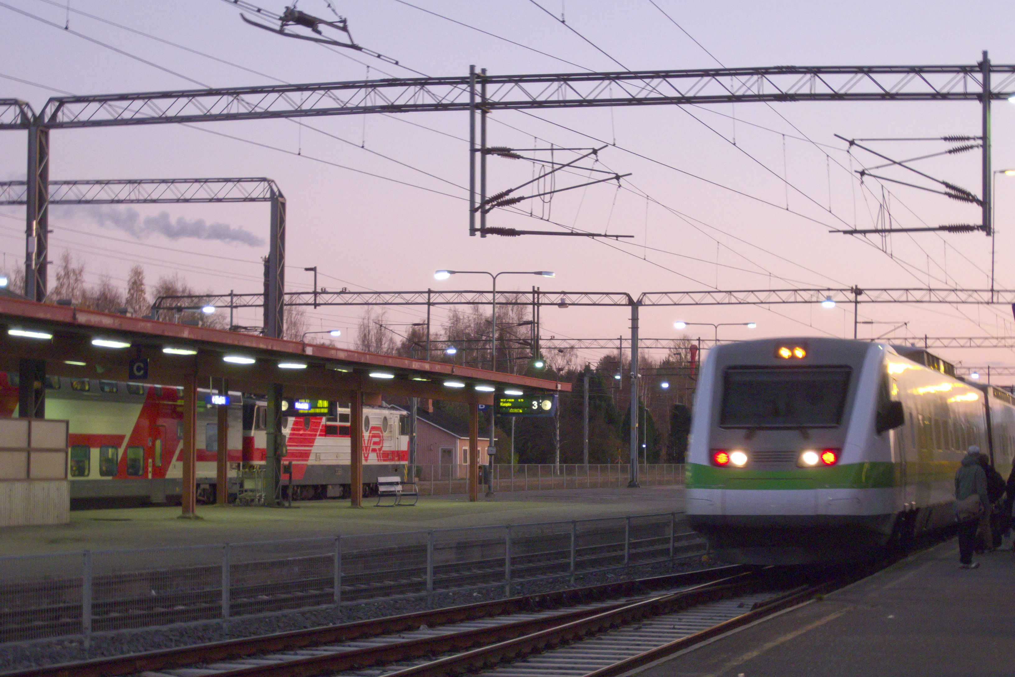 Pendolino train S89 arrives at Pieksämäki railway station in Pieksämäki, Finland. Both taillights and front lights are on due to differences with the lighting systems in prototype Sm3 trains.